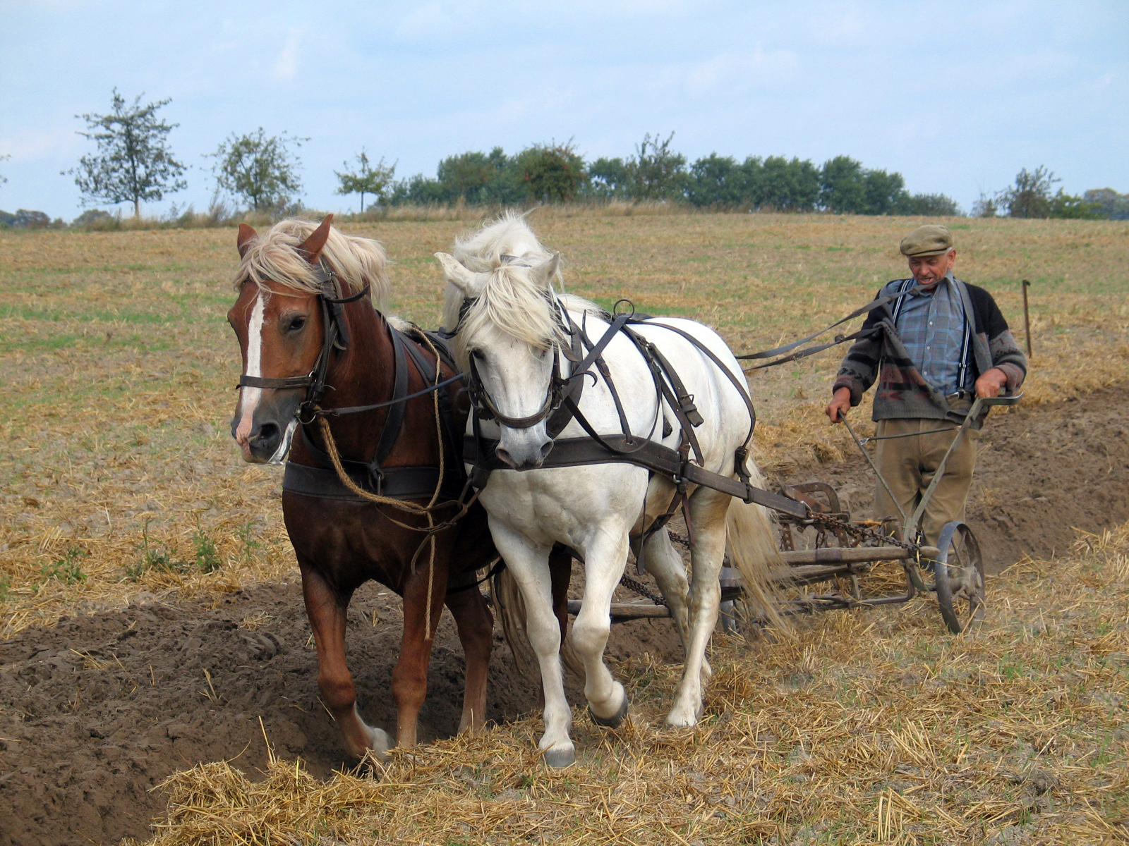 Farmer plowing at plowing competition 2004 in Fahrenwalde, Mecklenburg-Vorpommern, Germany